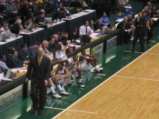 The sidelines of a George Mason University basketball game played January 26, 2005 against Hofstra. Jim Larranaga can be seen watching the court.